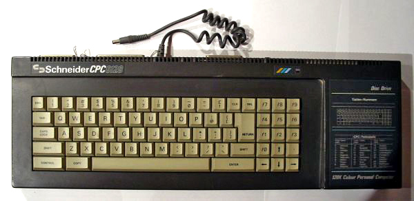 A Schneider CPC 6128 computer (German version of the Amstrad CPC 6128)